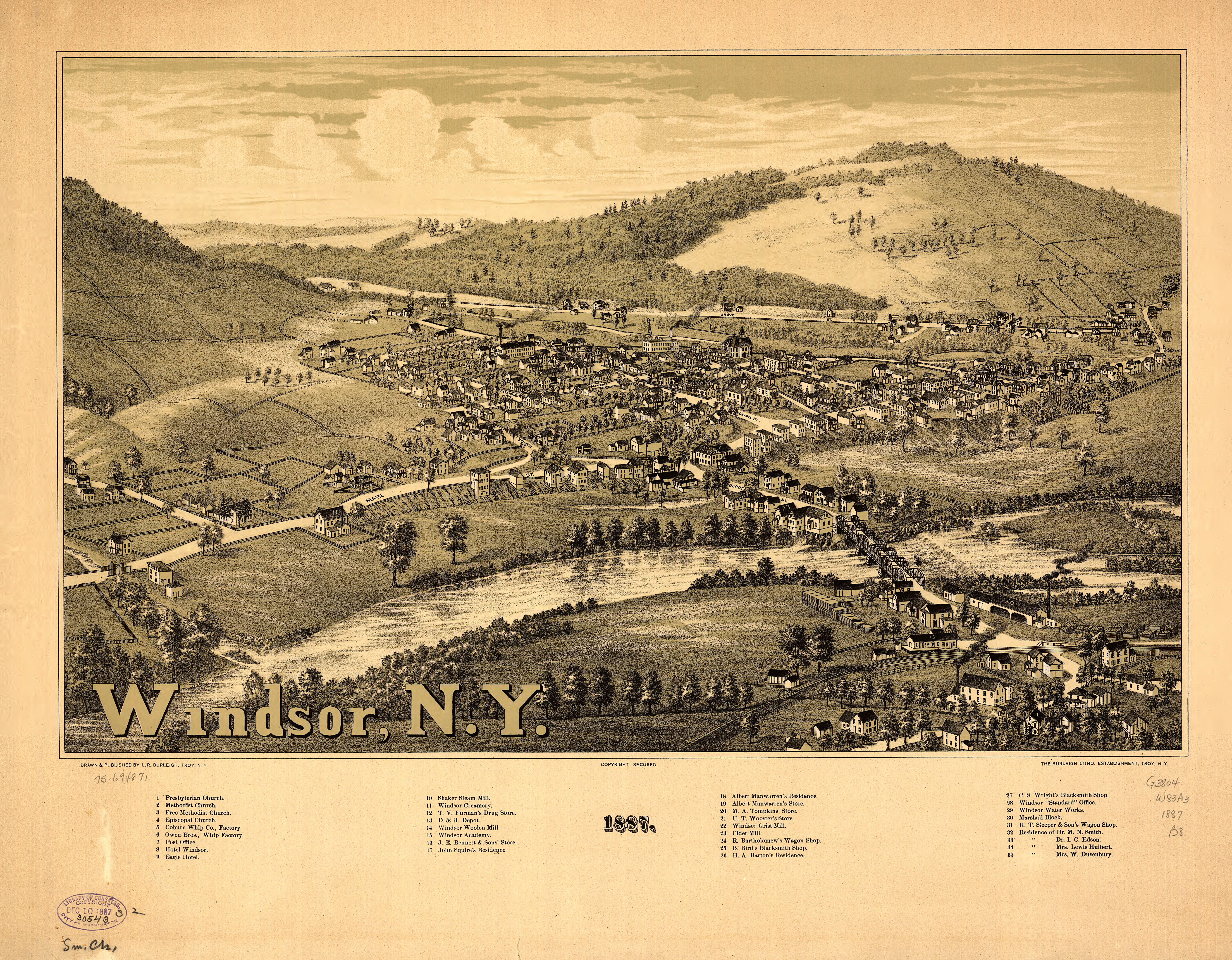 Perspective map not drawn to scale. Bird's-eye-view. LC Panoramic maps (2nd ed.), 656 Available also through the Library of Congress Web site as a raster image. Indexed for points of interest. AACR2